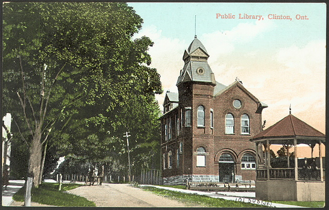 Postcard showing the Clinton, Ontario Carnegie Public Library.